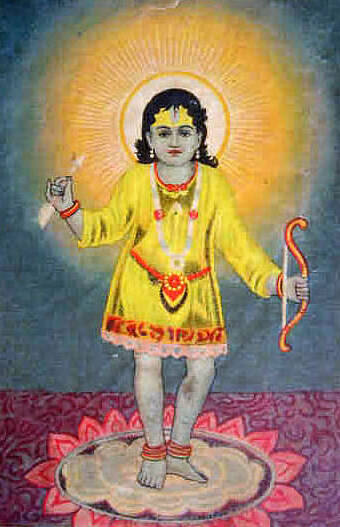 "Balakram" (Child Rama), a textile label from the late 1800's